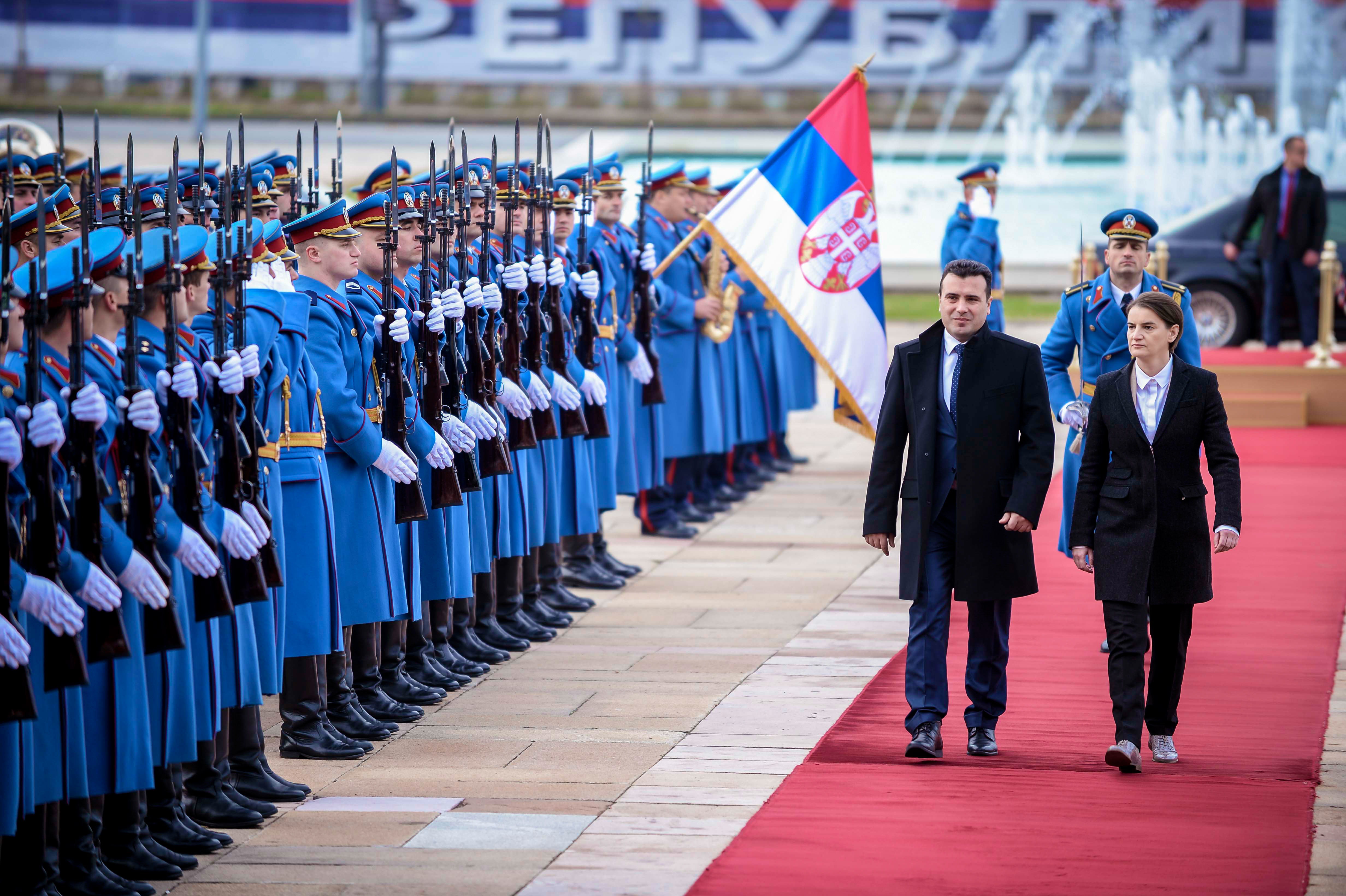 Zoran Zaev & Ana Brnabić (official visit to Serbia, 21.11.2017) in Belgrade, Serbia